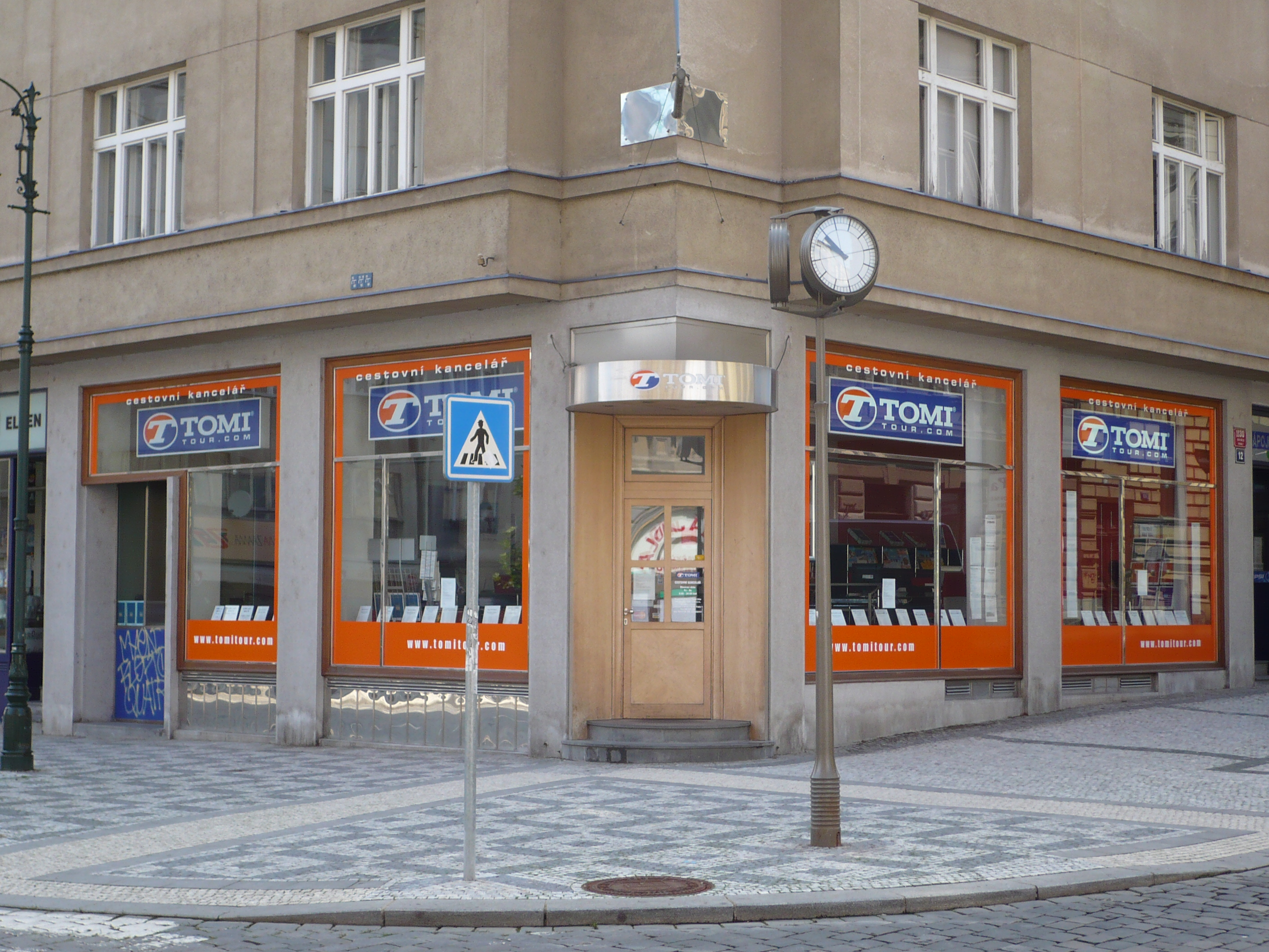 Office of insolvent travel agency Tomi Tour in Prague, two days after its closure. The bankruptcy procceedings were cancelled due to lack of assets.